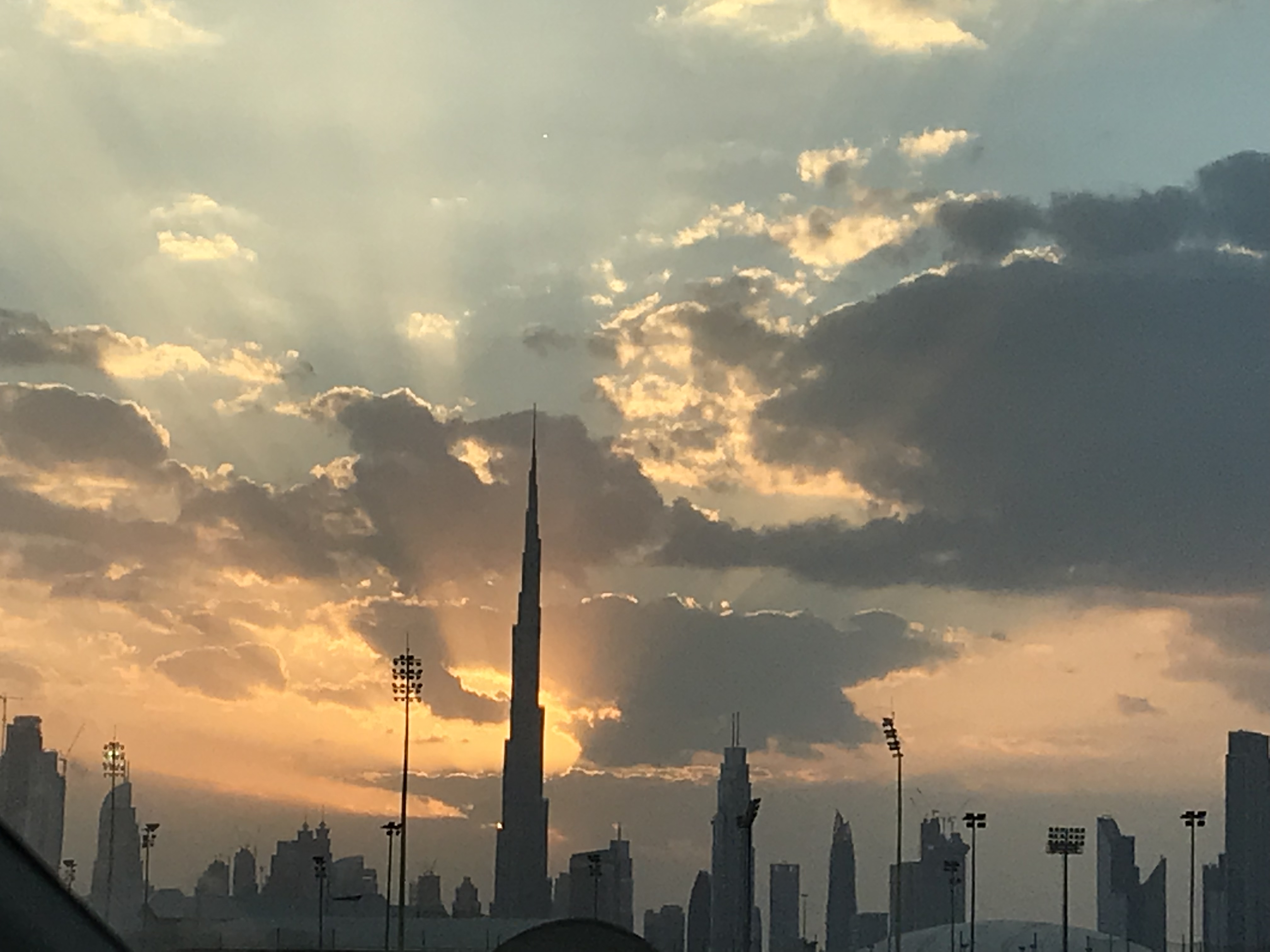 Sunset